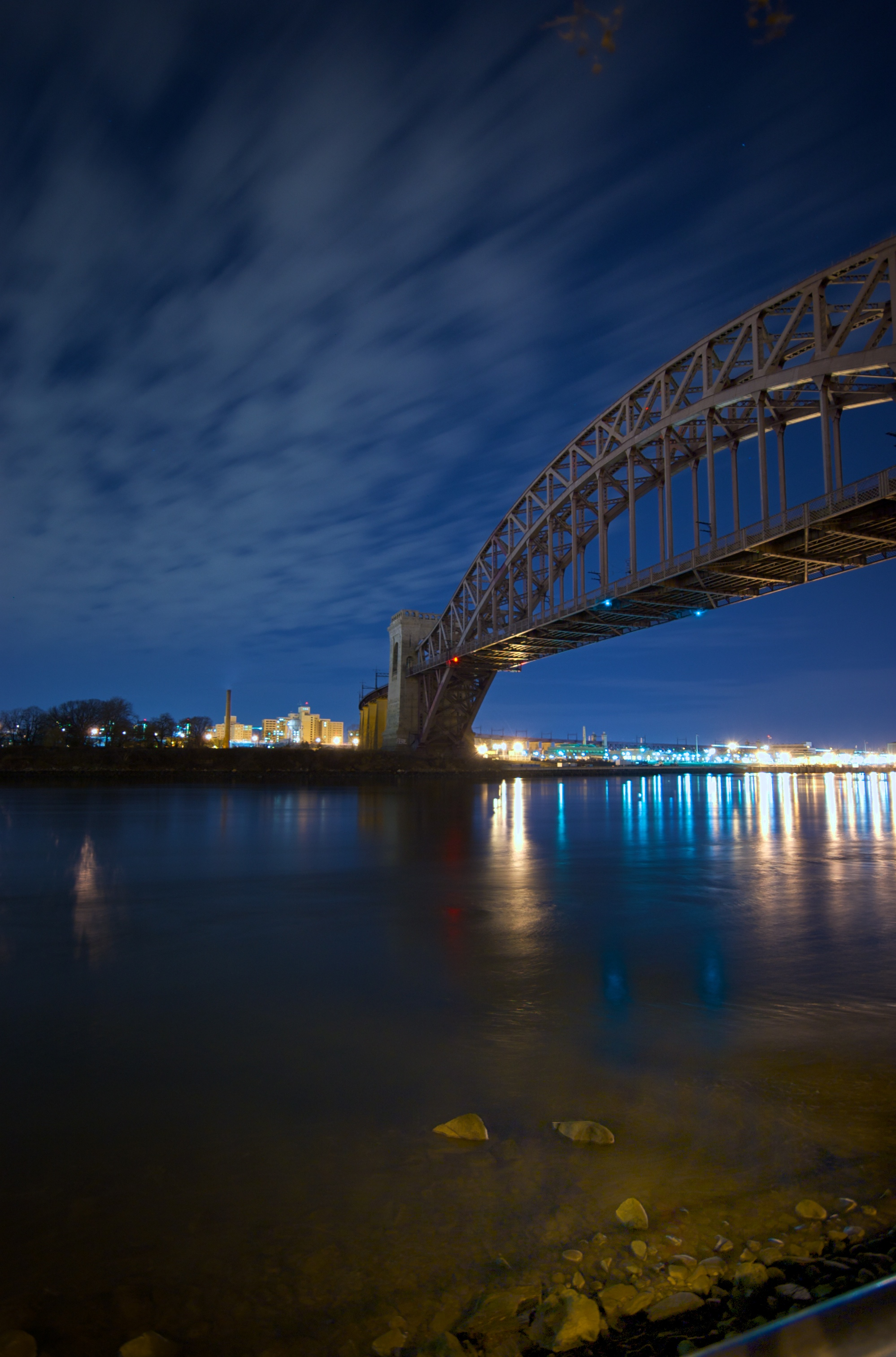 The Hellsgate Bridge from Astoria Park